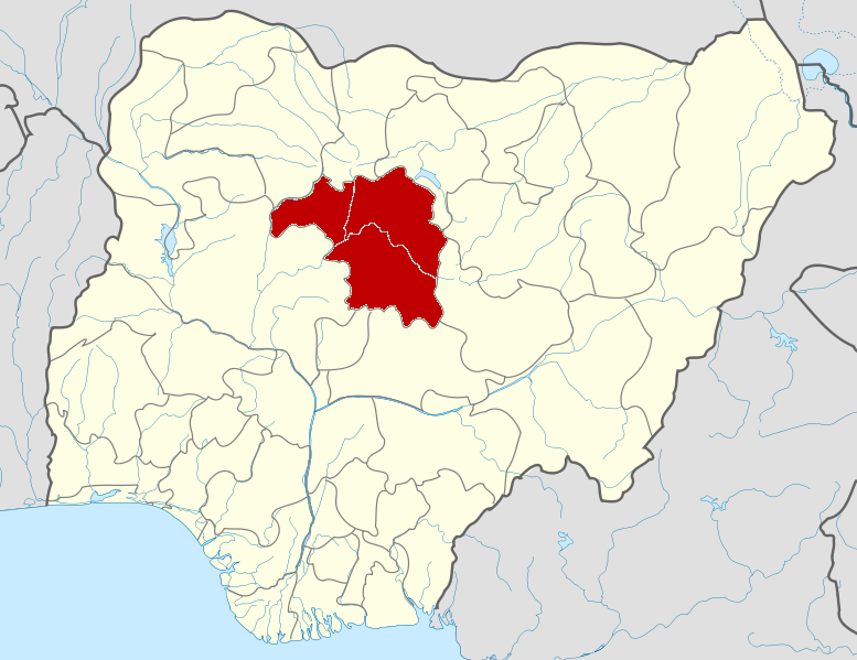 Map locator of Nigeria.